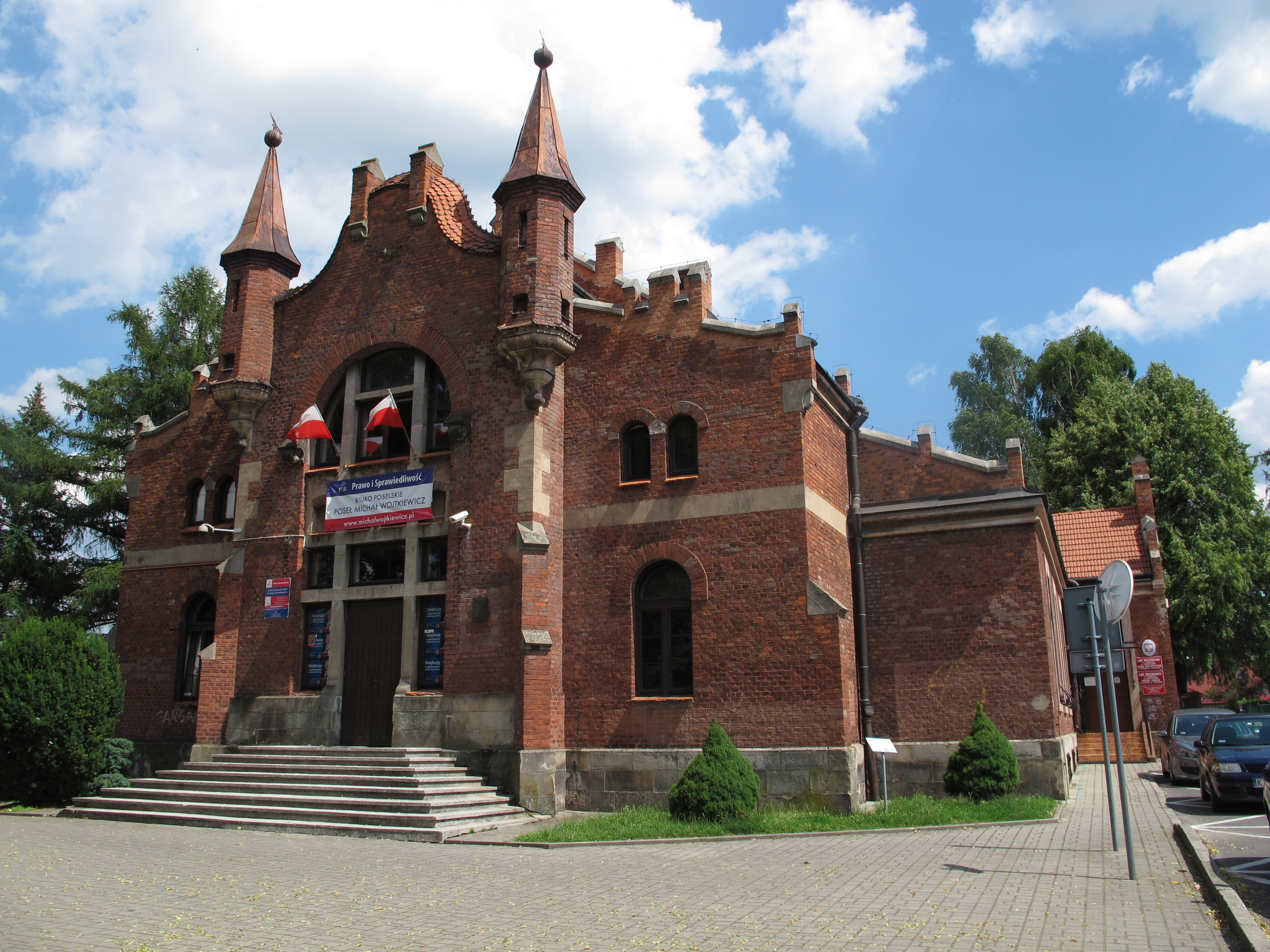 Tuchów - "Sokół" building